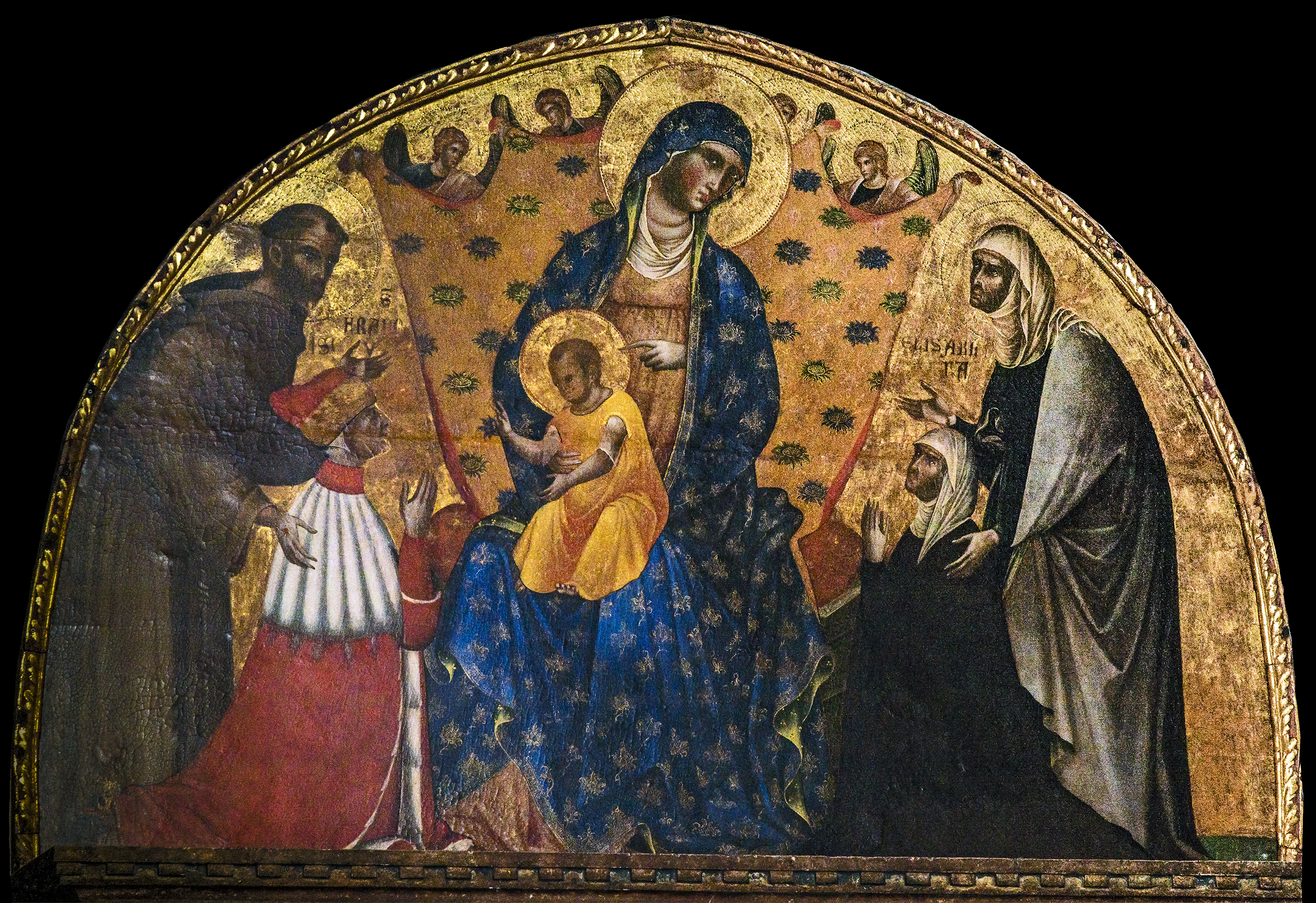 Santa Maria Gloriosa dei Frari, Chapter Room - Monument to Francesco Dandolo. Painting by Paolo Veneziano : Doge Francesco Dandolo and his Wife Presented to the Madonna. Oil on panel 1339.